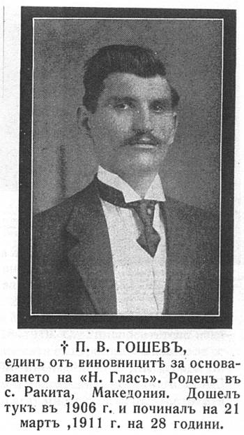 Petar V. Goshev